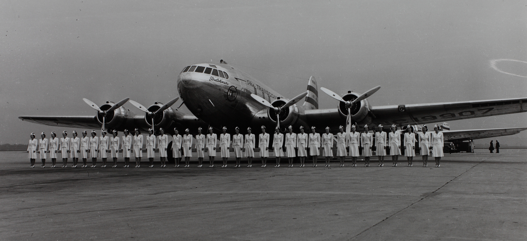 Title: Stewardess in front of Stratoliner Catalog #: WOF_00105 Item Location: Women of Flight Box 3 Collection: Women of Flight Special Collection Tags: Women of Flight Photo, Stuardesses in front of Stratoliner Repository: San Diego Air and Space Museum Archive